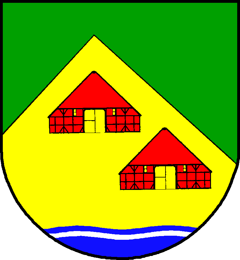 Coat of arms of the municipality Winnert in Schleswig-Holstein, Germany.